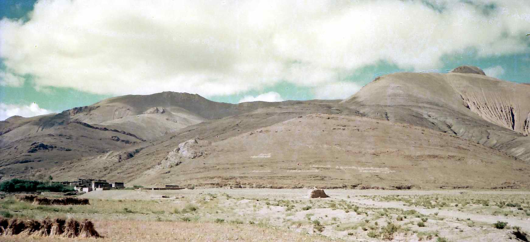 photo of Tingri from the distance showing mountains